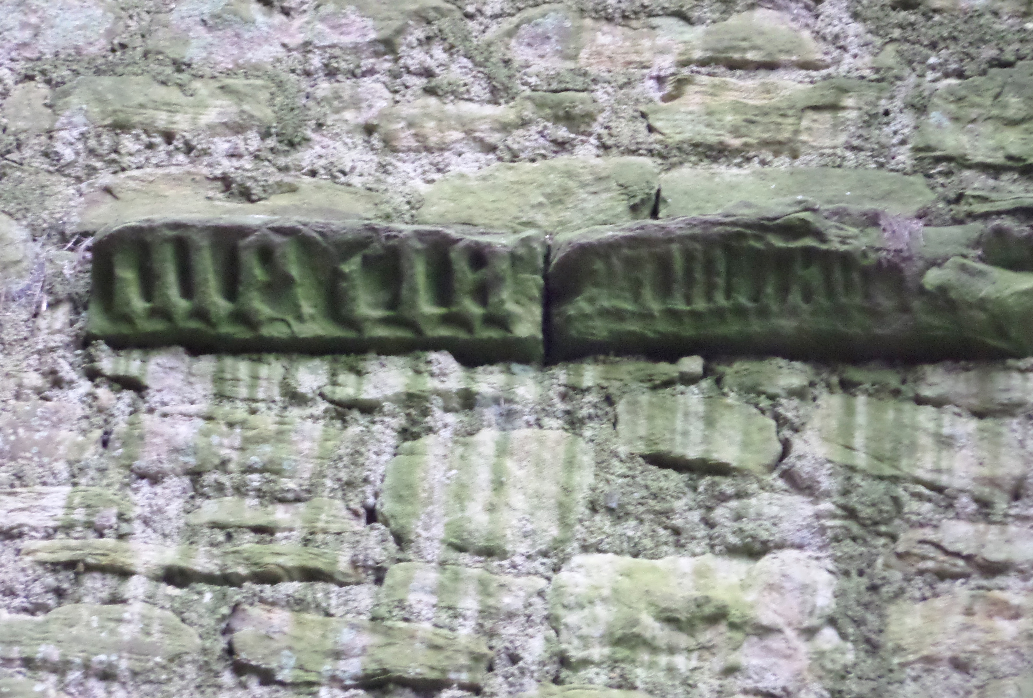 Gothic carved script set into the fireplace in the grand hall of Kilbirnie Place keep. One section may read 'Maria'. North Ayrshire, Scotland.